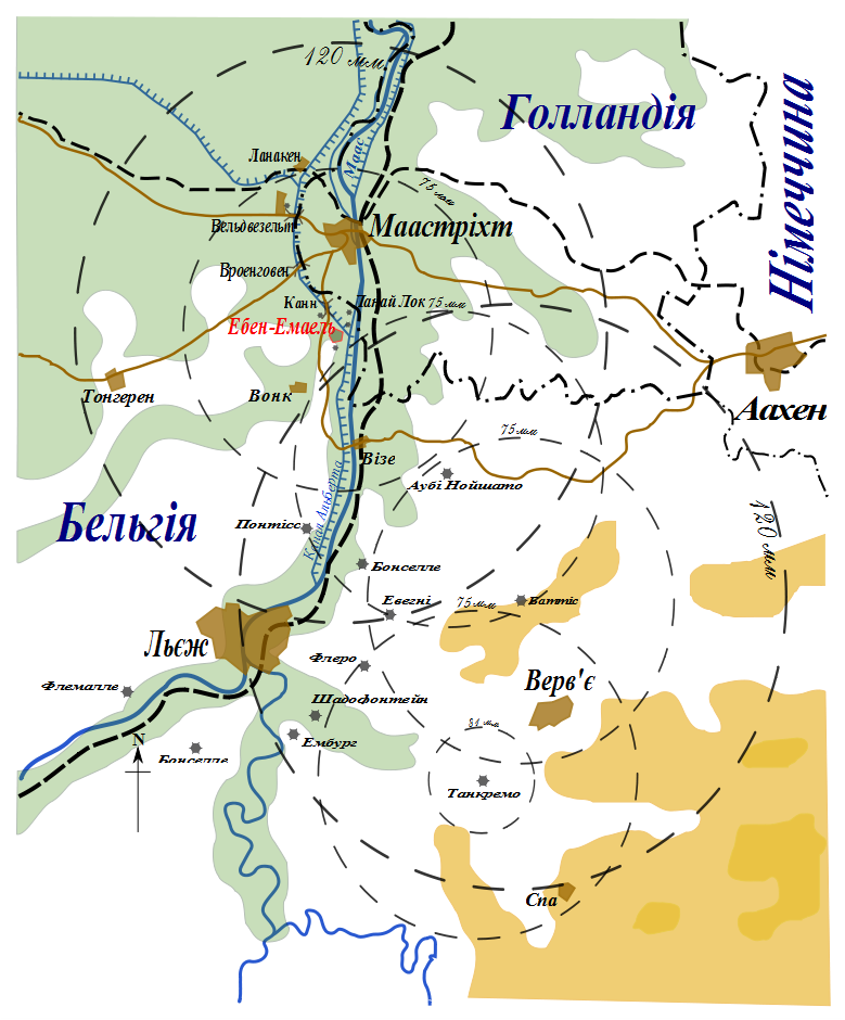 Fort Eben-Emael (Part of Fortified Position of Liège). 10th of May 1940